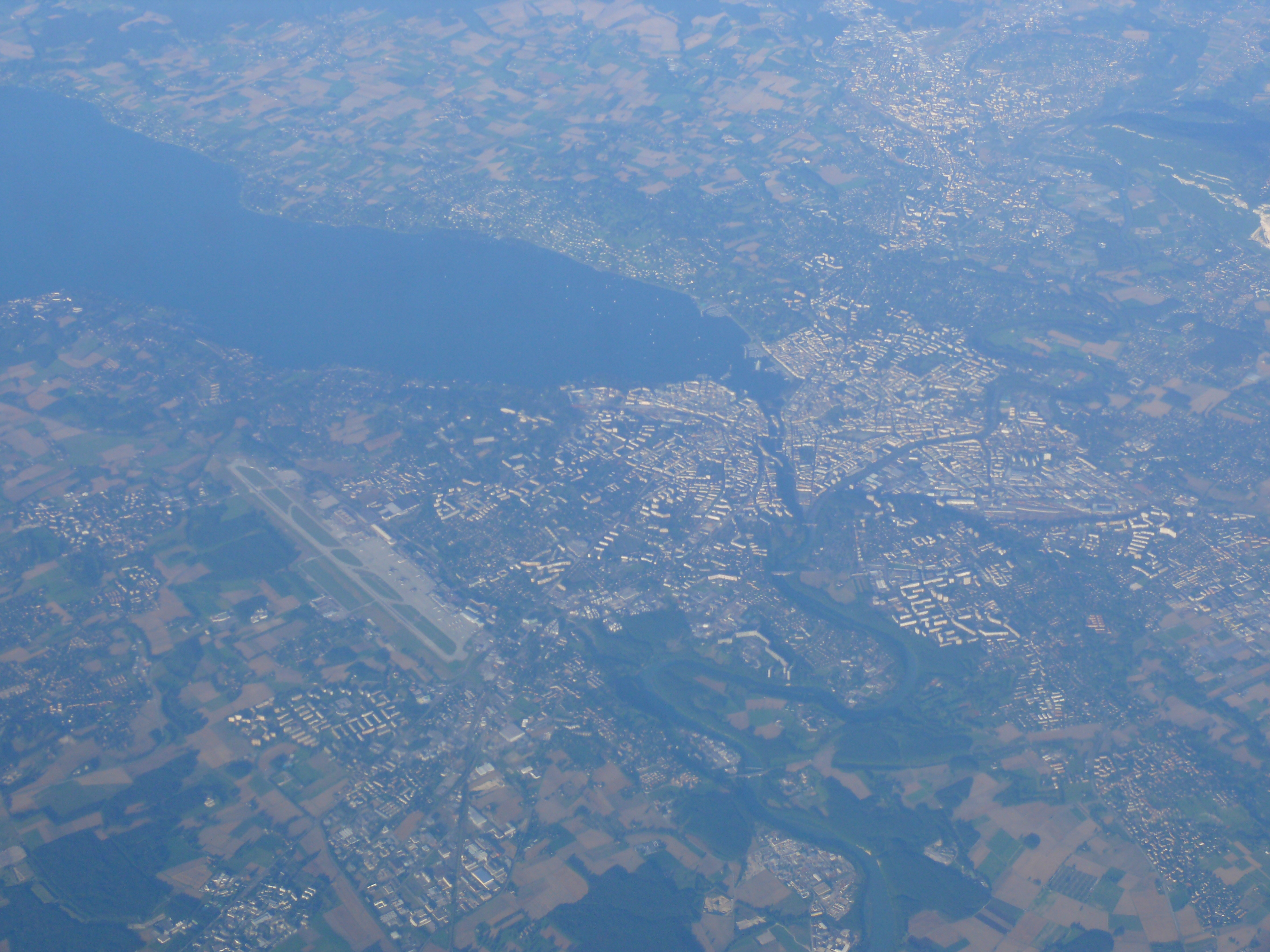 A photograph of Geneva, taken from 11 000 metres.